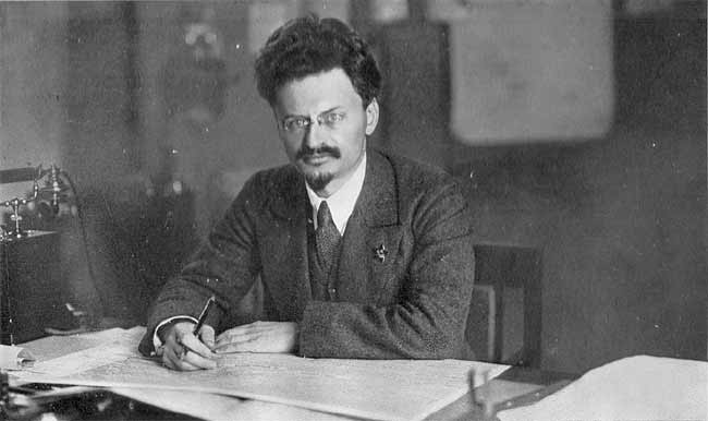 Leon Trotsky at his desk.